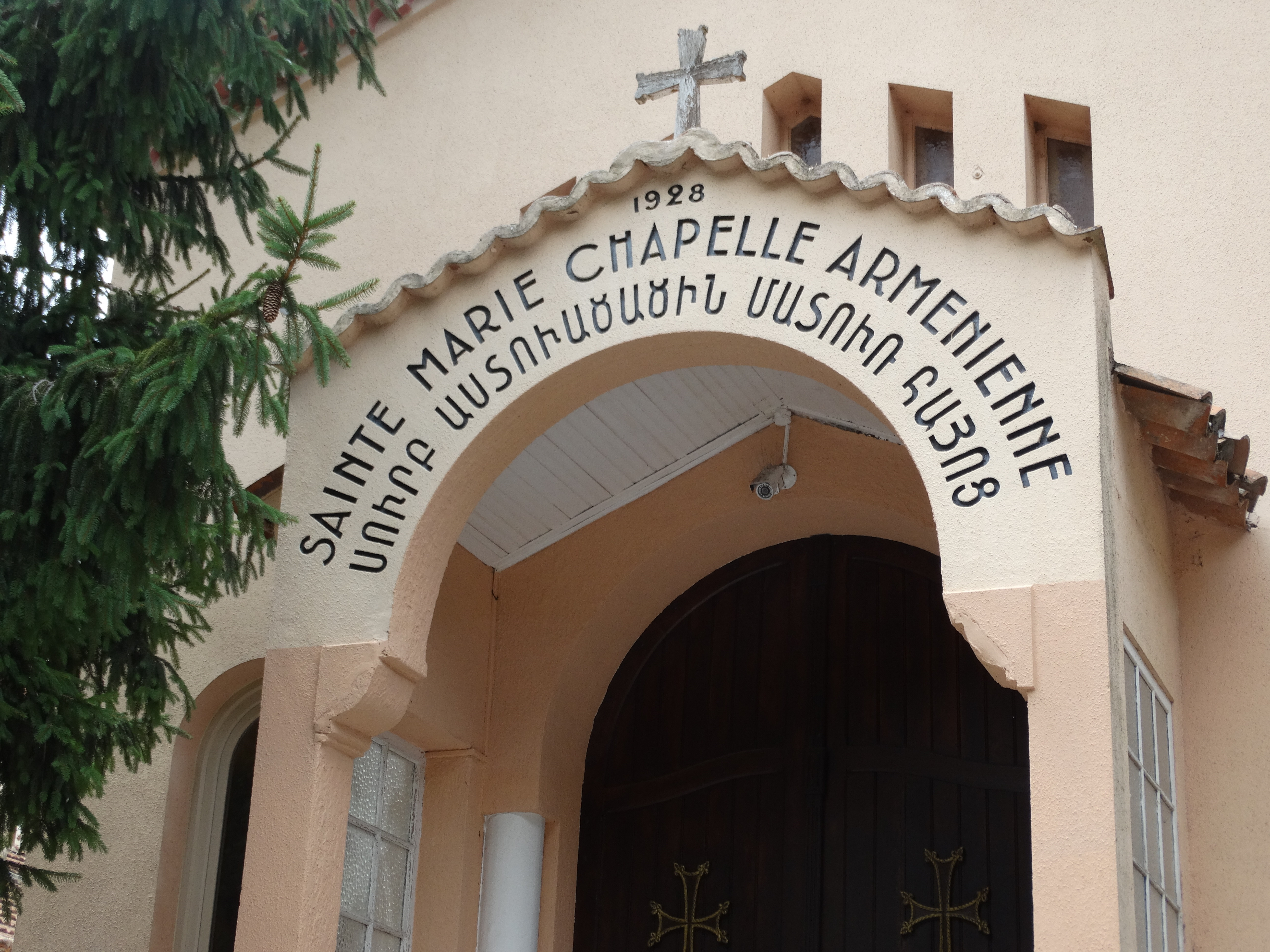 Armenian Surb Astvatsatzin chapel in Nice